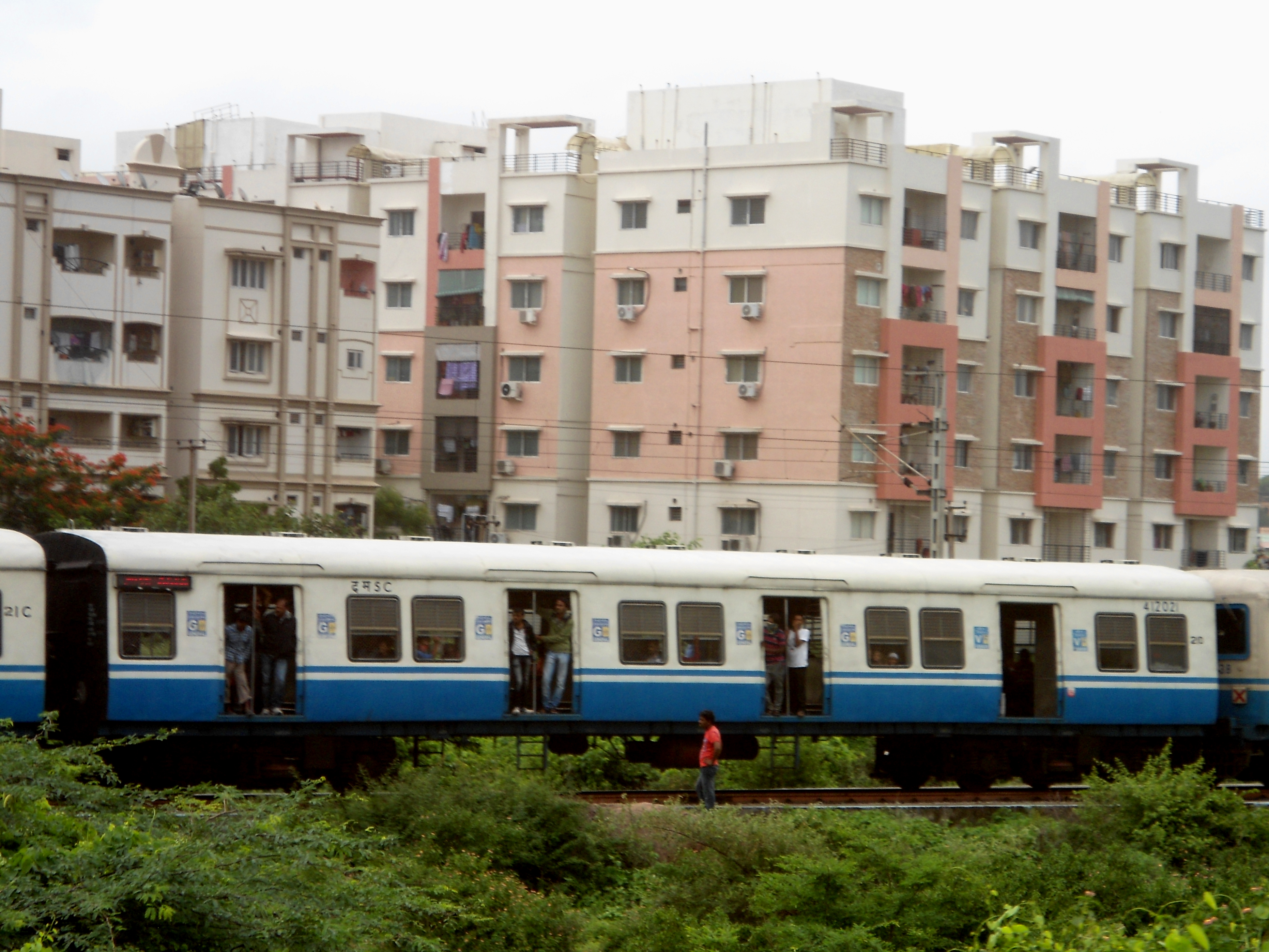 Lingampalli bound MMTS local at Begumpet, Hyderabad